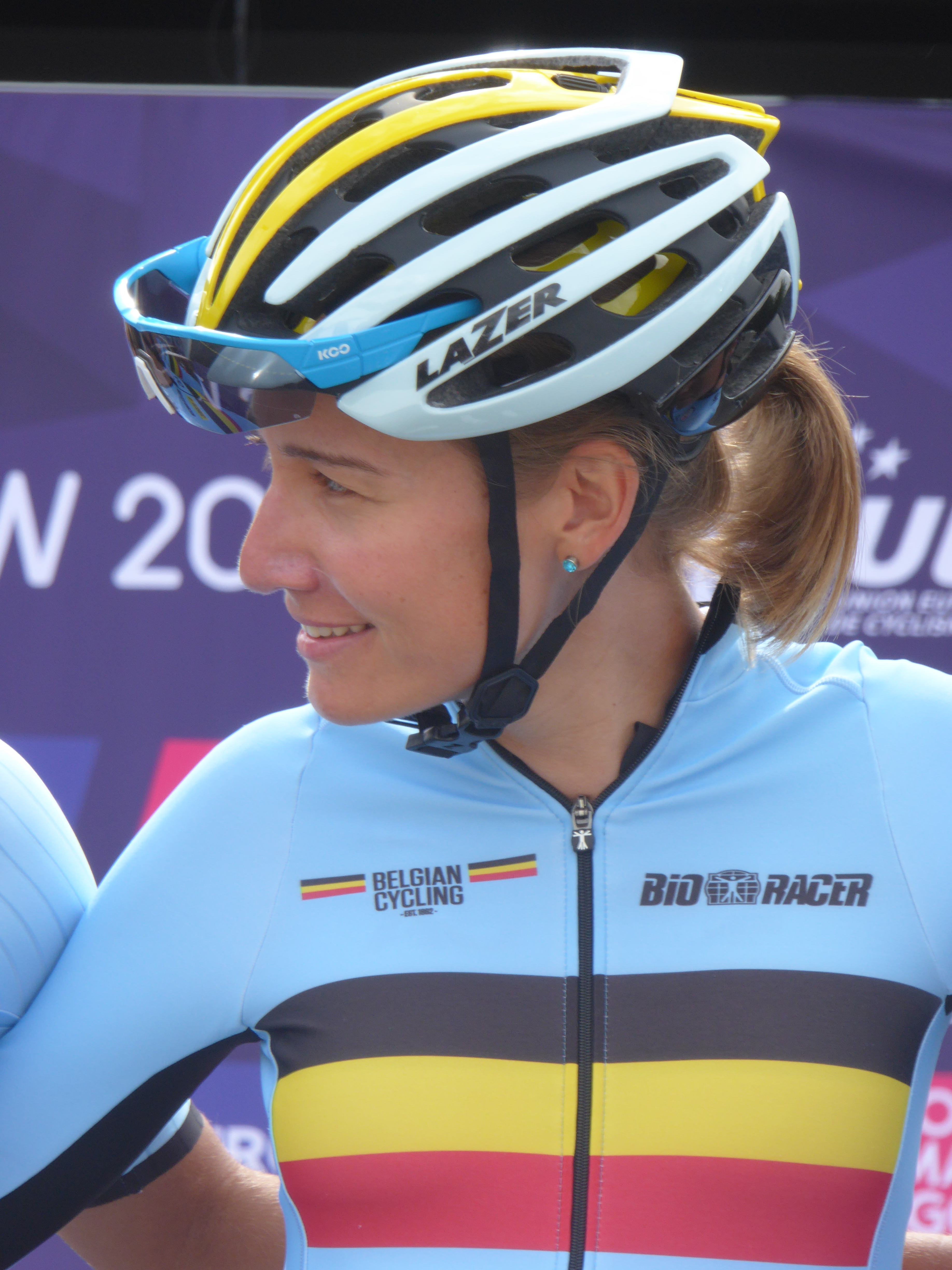 Sofie De Vuyst (Belgium), prior to the women's road race at the 2018 UEC European Road Cycling Championships in Glasgow.